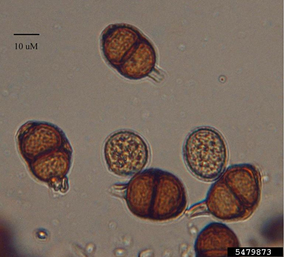 Mint rust (Sexual Spore) Puccinia menthae Pers. sexual and asexual spores urediospores (globoid to ellipsoid, aseptate) and darker septate teliospores Image location: Virginia, United States This image contains digital watermarking or credits in the image itself. The usage of visible watermarks is discouraged. If a non-watermarked version of the image is available, please upload it under the same file name and then remove this template. Ensure that removed information is present in the image description page and replace this template with metadata from image or attribution metadata from licensed image . Caution: Before removing a watermark from a copyrighted image, please read the WMF's analysis of the legal ramifications of doing so, as well as Commons' proposed policy regarding watermarks. If the old version is still useful, for example if removing the watermark damages the image significantly, upload the new version under a different title so that both can be used. After uploading the non-watermarked version, replace this template with superseded|new filename|version without watermarks .